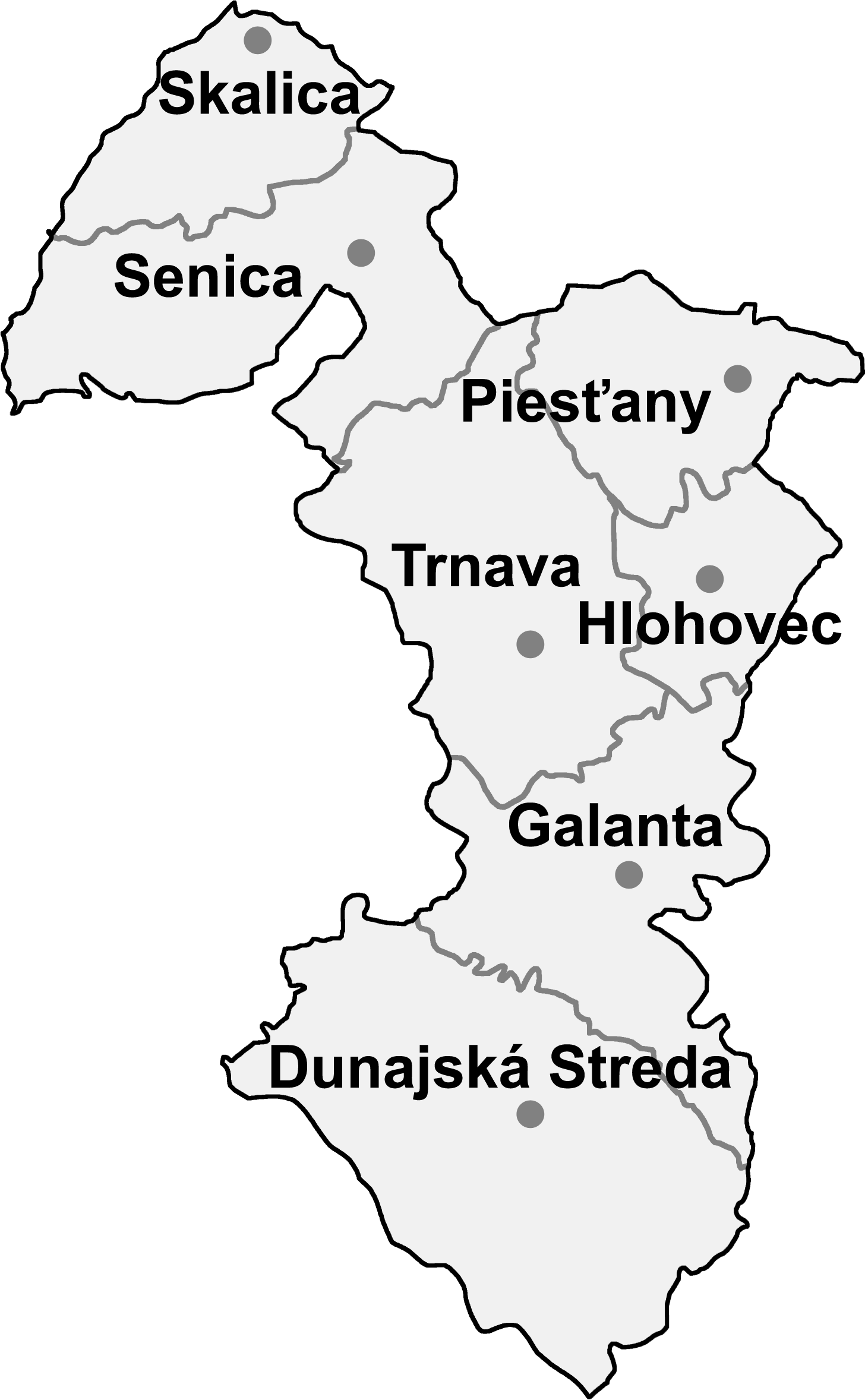 Trnava region (kraj) with districts (okresy)